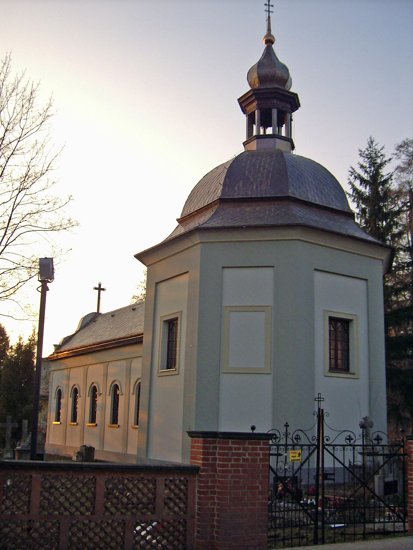 Brzeg Dolny, Chapel of St Jadwiga of Poland.